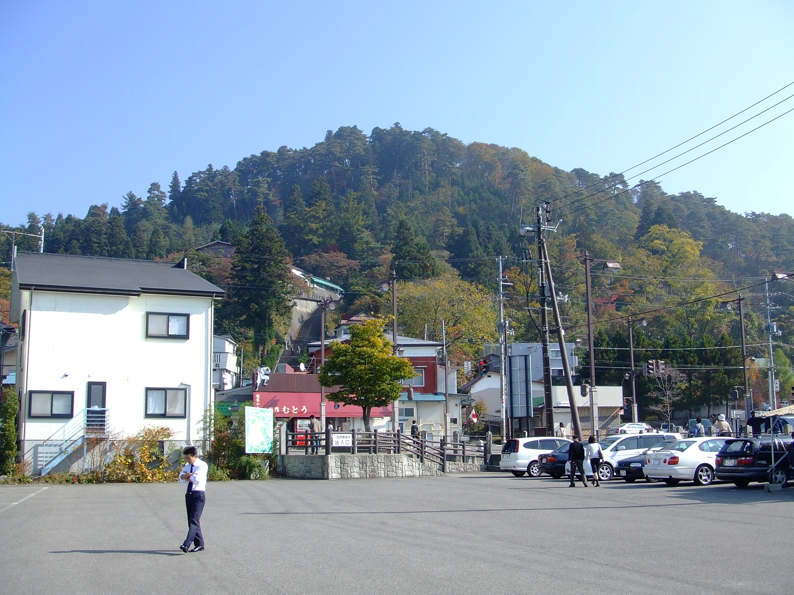 This is Iimori Hill in Aizu-wakamatsu, Fukushima Prefecture, Japan. I took this photo with a digital camera on 3rd November 2006.